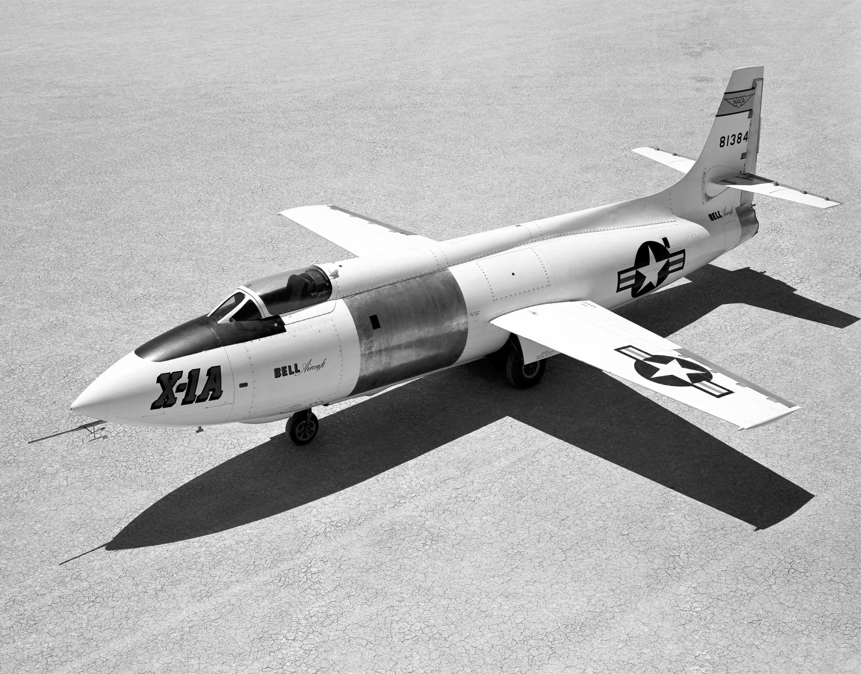 The Bell Aircraft Corporation X-1A (48-1384) is photographed in July 1955 sitting on Rogers Dry Lake at Edwards Air Force Base, California. This view of the left side of the aircraft shows the change to the X-1A canopy from the X-1s (see photo E49-0039 under XS-1) The nose boom carries an angle-of-attack and angle-of-sideslip vane, along with a pitot tube for measuring static and impact pressures. The fuselage length is 35 feet 8 inches, with a wing span of 28 feet. The X-1A was created to explore stability and control characteristics at speeds in excess of Mach 2 and altitudes greater than 90,000 feet. Bell test pilot Jean "Skip" Ziegler made six test flights in the X-1A between 14 February and 25 April 1953. Air Force test pilots Maj. Charles "Chuck" Yeager and Maj. Arthur "Kit" Murray made 18 flights between 21 November 1953 and 26 August 1954. NACA test pilot Joseph Walker made one successful flight on 20 July 1955. During a second flight attempt, on 8 August 1955, an explosion damaged the X-1A shortly before launch. Walker, unhurt, climbed up into the JTB-29A mothership, and the X-1A was jettisoned over the Edwards AFB bombing range. NASA Identifier: NIX-E55-01799